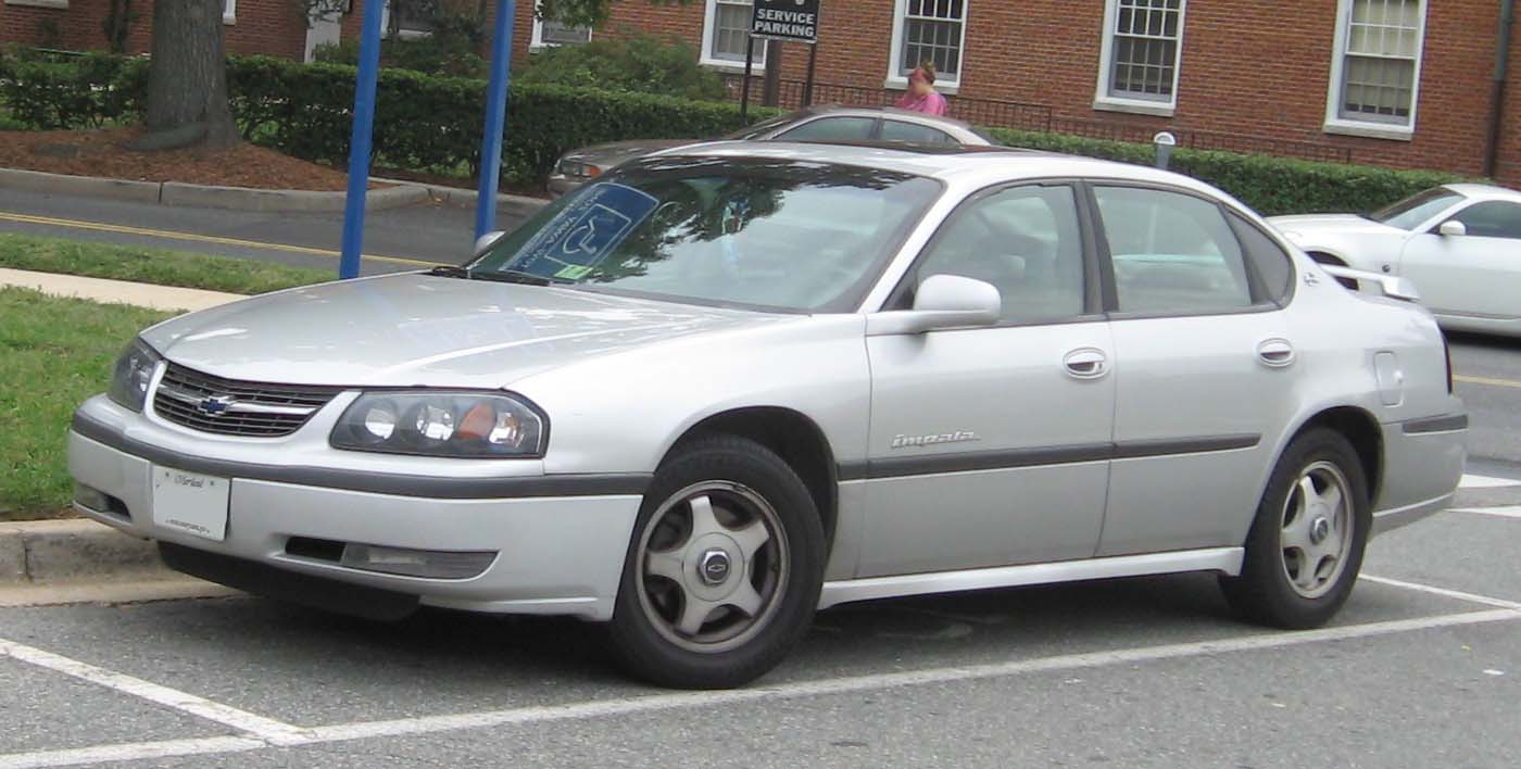 2000-2005 Chevrolet Impala photographed in College Park, Maryland, USA.